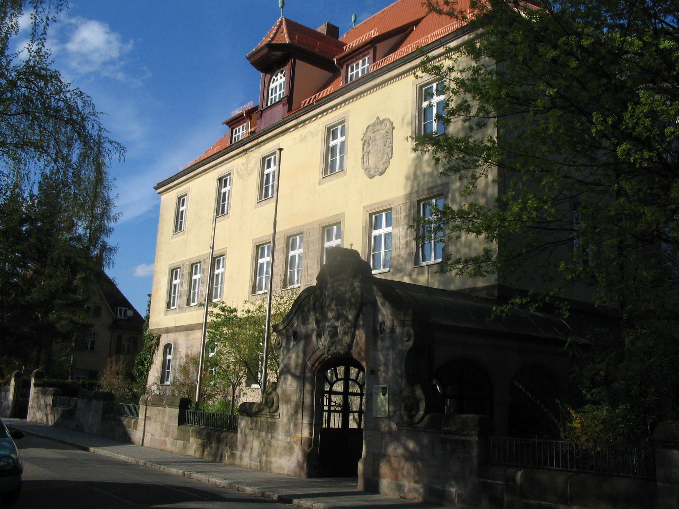 The new city hall in Altdorf bei Nürnberg, Germany. Photo taken on May 2, 2006. Photo by User:Jarlhelm